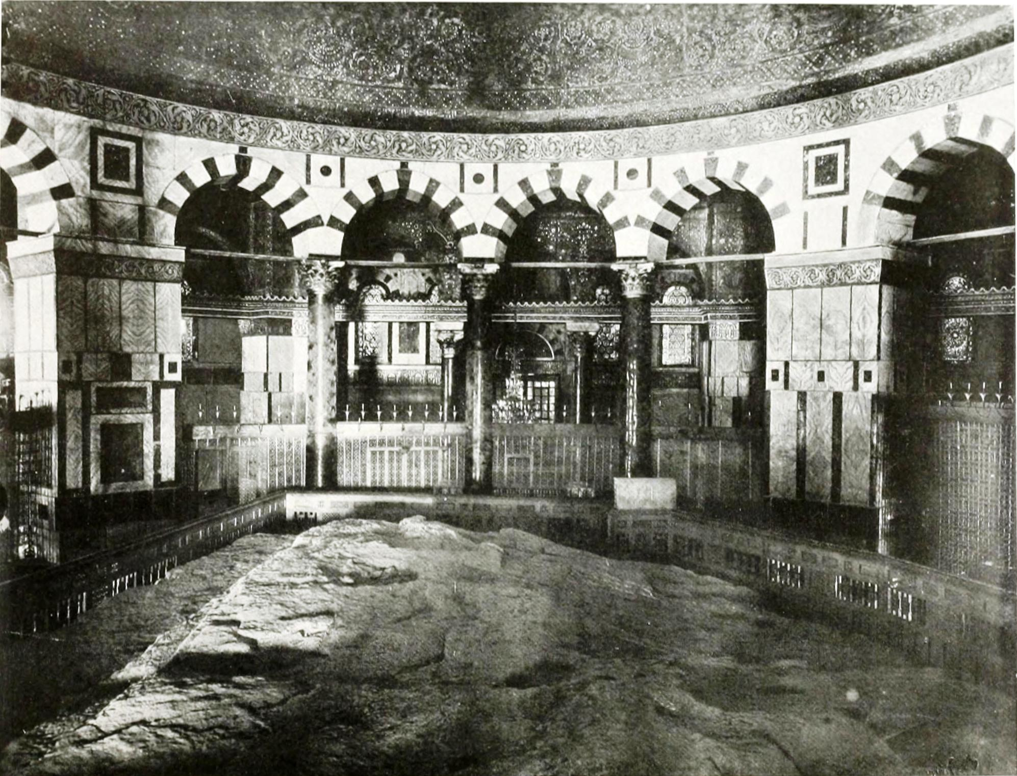 The Dome of the Rock, Jerusalem. 1910